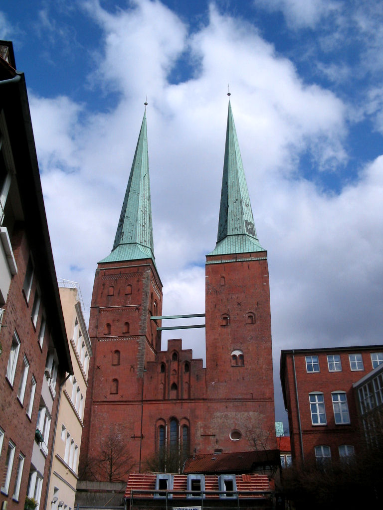 Lübecker Dom, a cathedral in Lübeck.